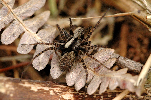 Pardosa lugubris couple, from Commanster, Belgian High Ardennes .